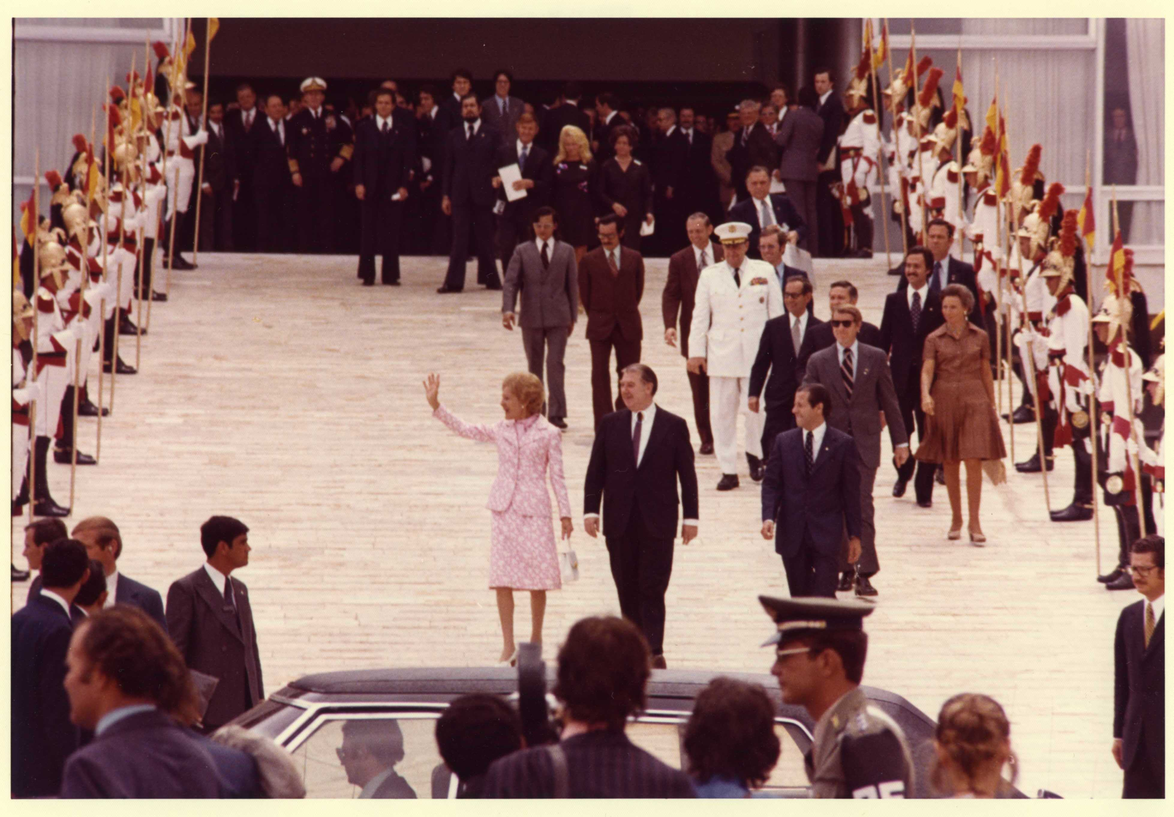 US First Lady Pat Nixon leaves the presidential palace after the inauguration of President Ernesto Geisel of Brazil, March 15, 1974.